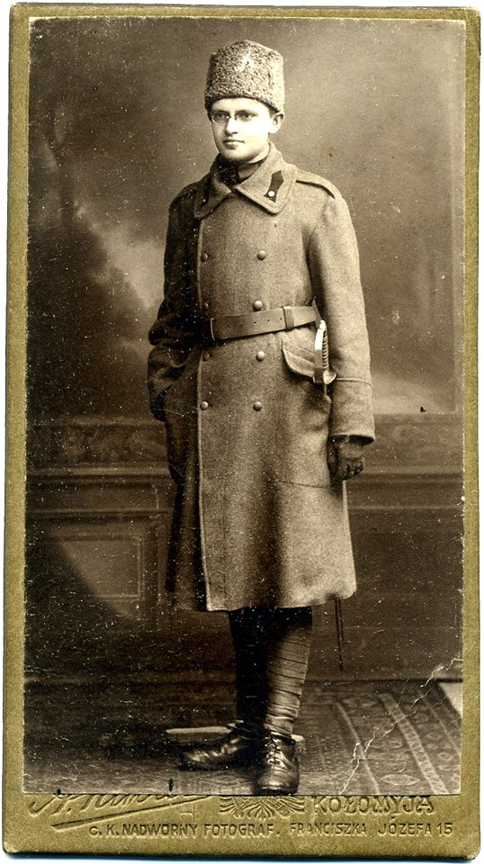 Volodymyr Kubiyovych in the uniform of an artillery officer of the Ukrainian Galician Army.